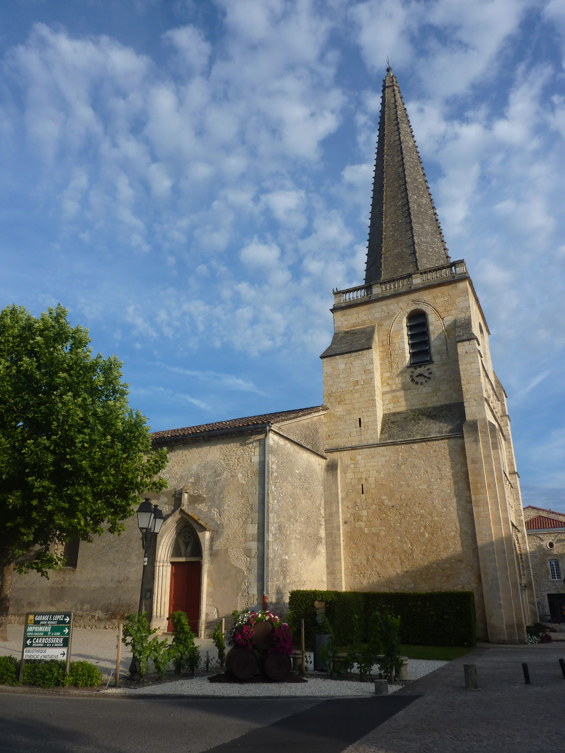 Church St Laurent of Saint-Laurent-Médoc, Gironde, France